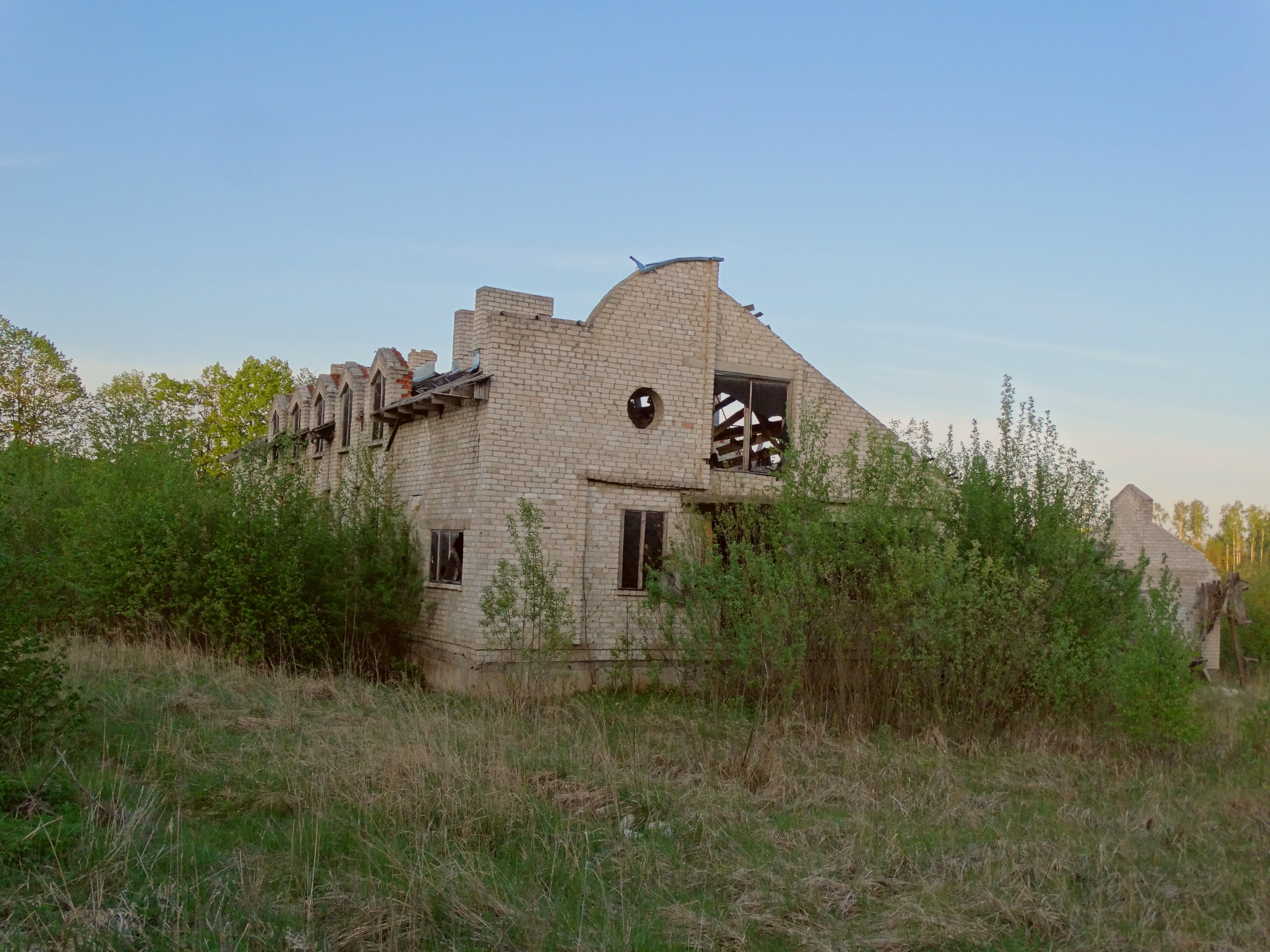 Jadvimpolis, Radviliškis district, Lithuania